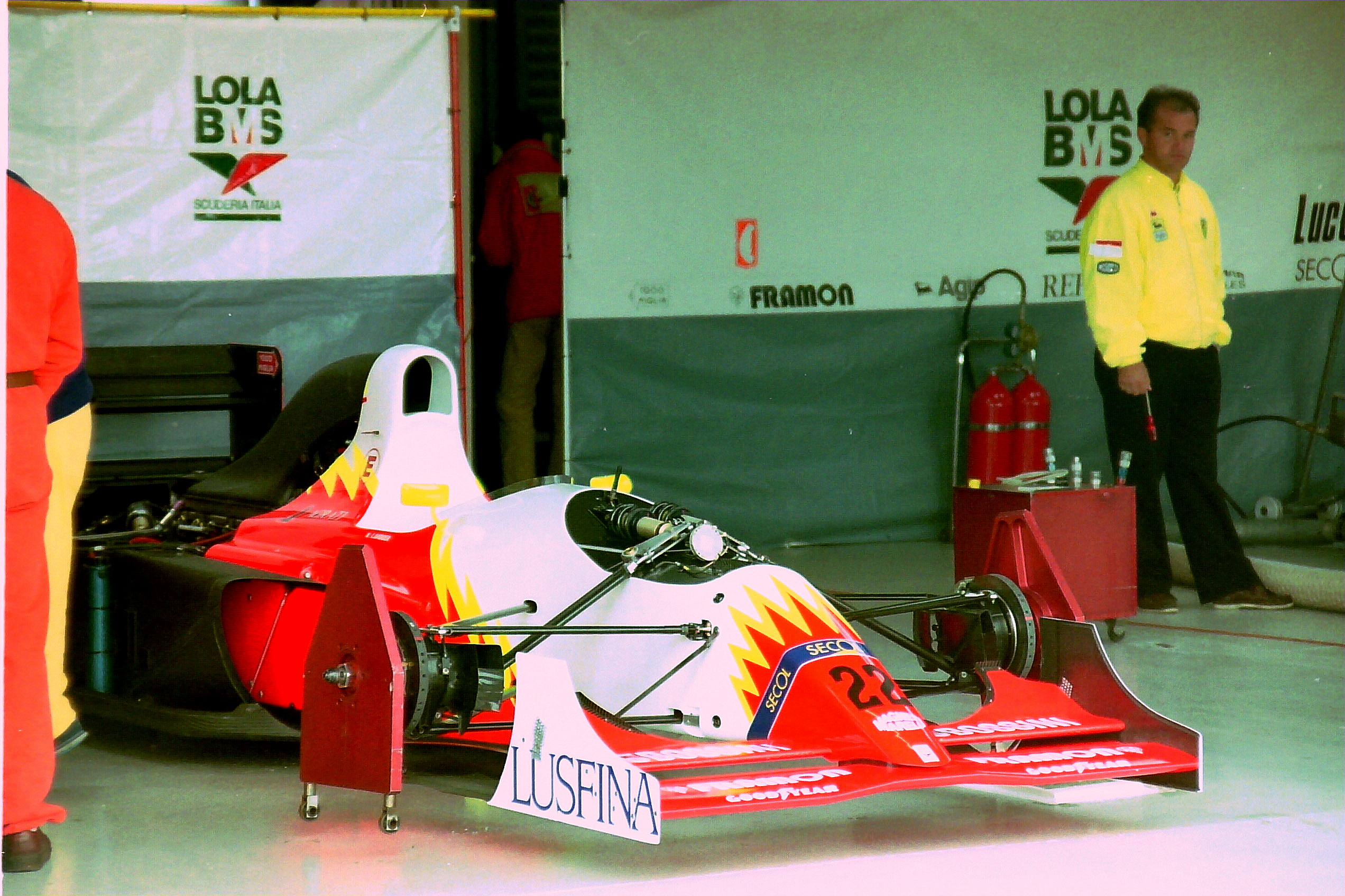 Luca Badoer`s Lola T93-30 in the pit garage at the 1993 British Grand Prix